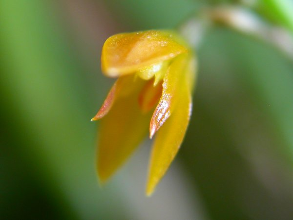 Anathallis